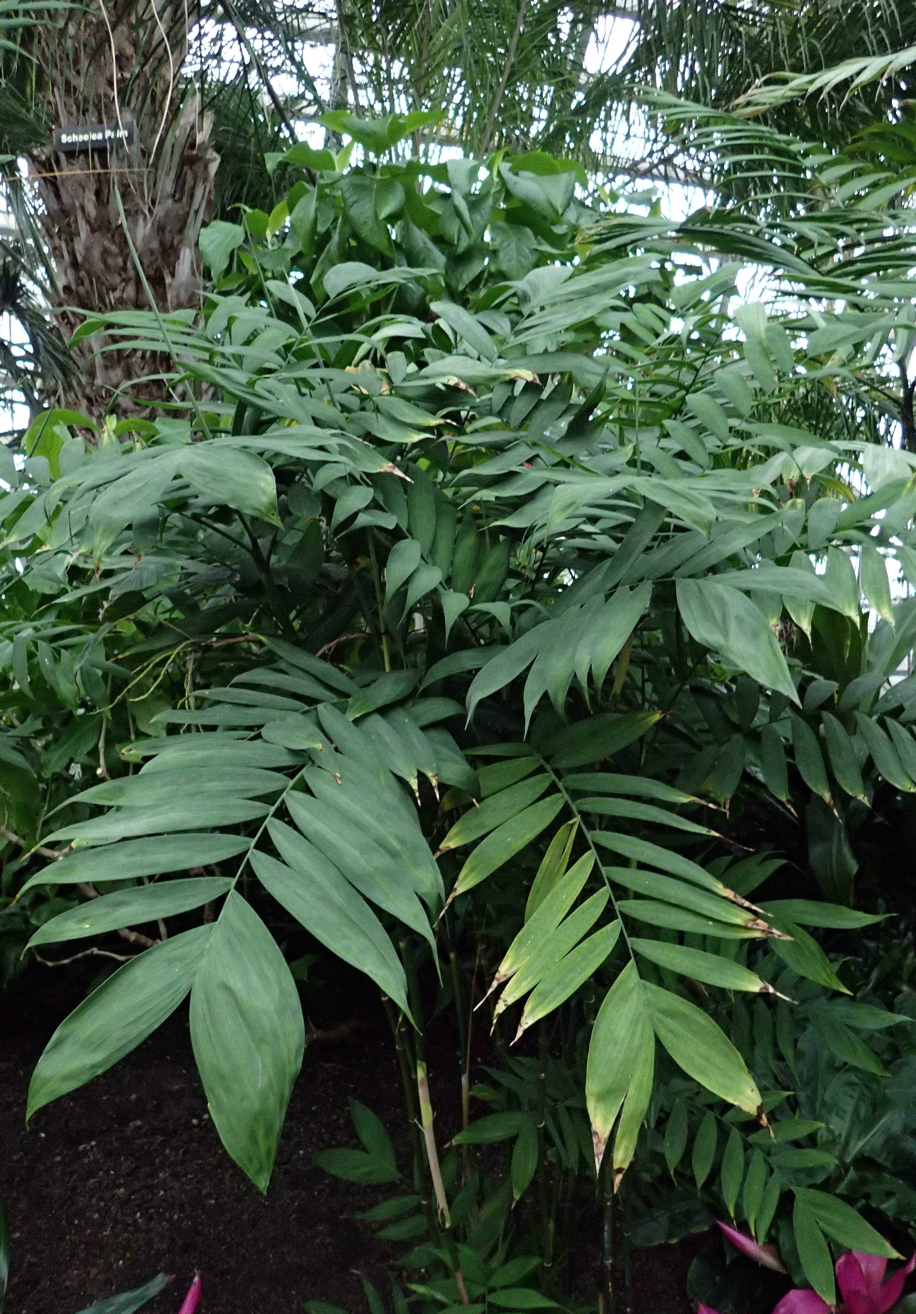 Chamaedorea microspadix at Garfield Park Conservatory